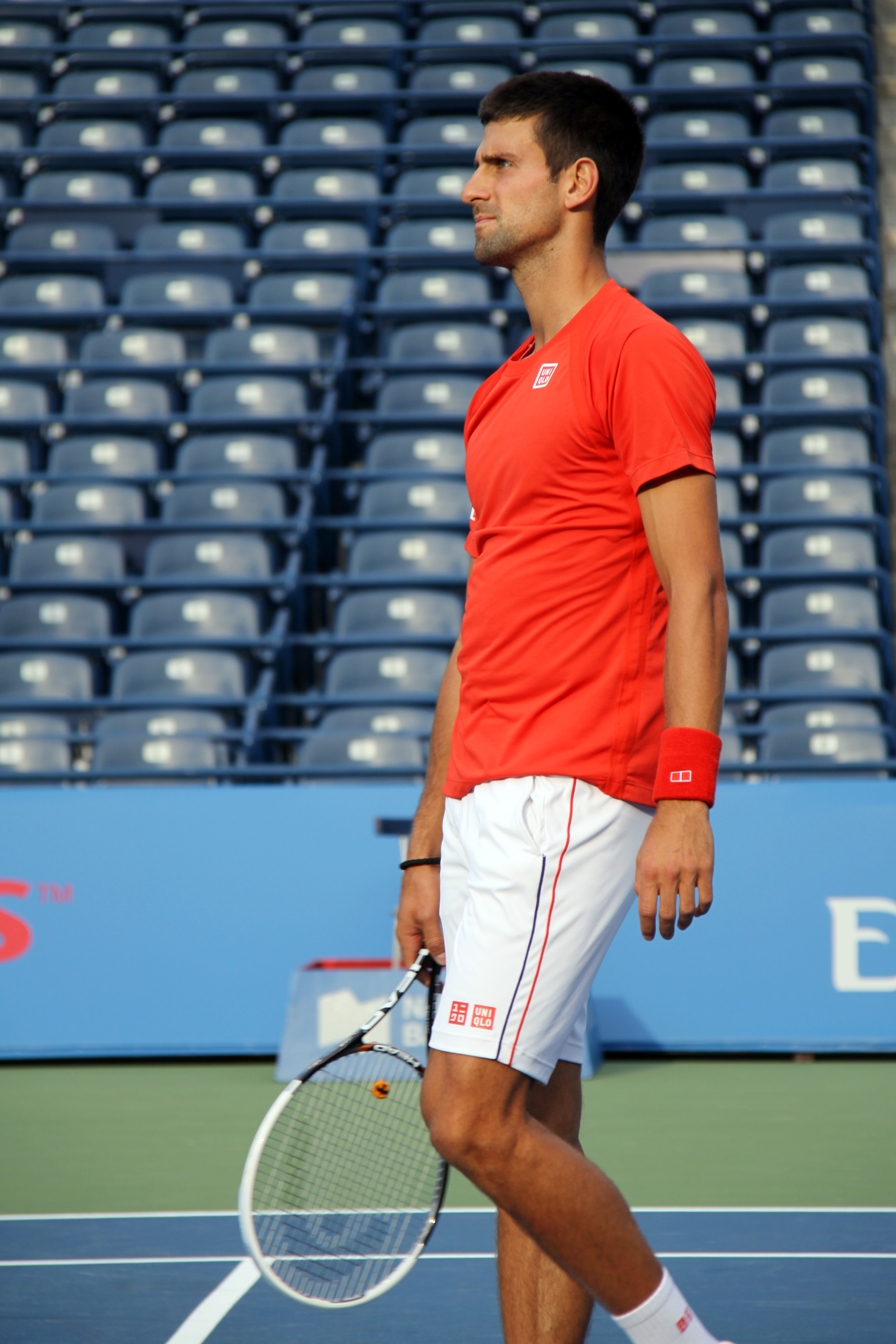 Novak Djokovic up close during practice session